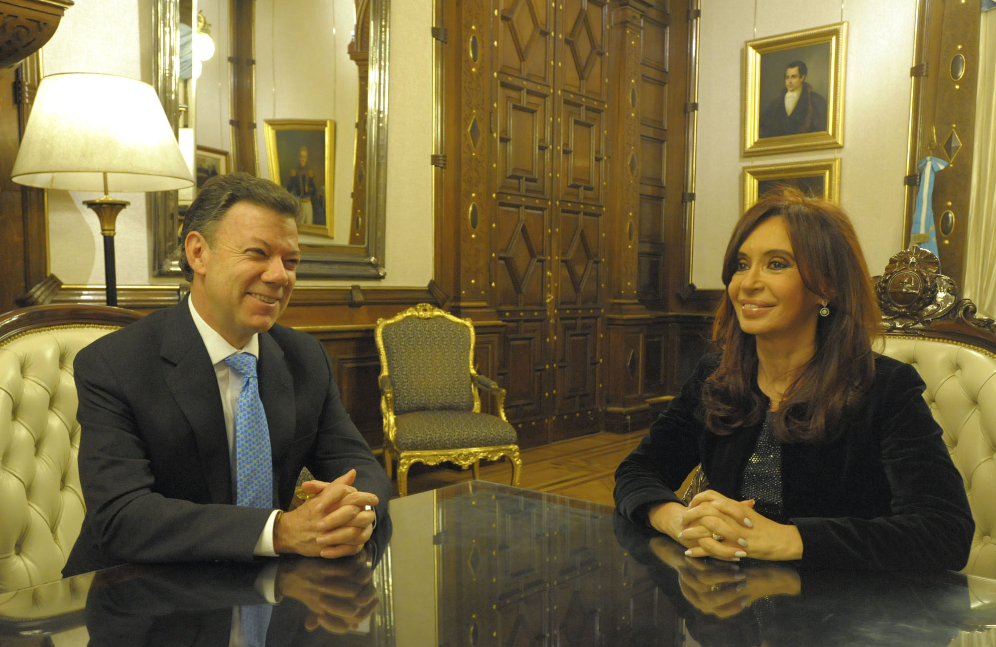 Argentine President Cristina Fernandez de Kirchner received Colombia President Elect Juan Manuel Santos at Casa Rosada, Buenos Aires